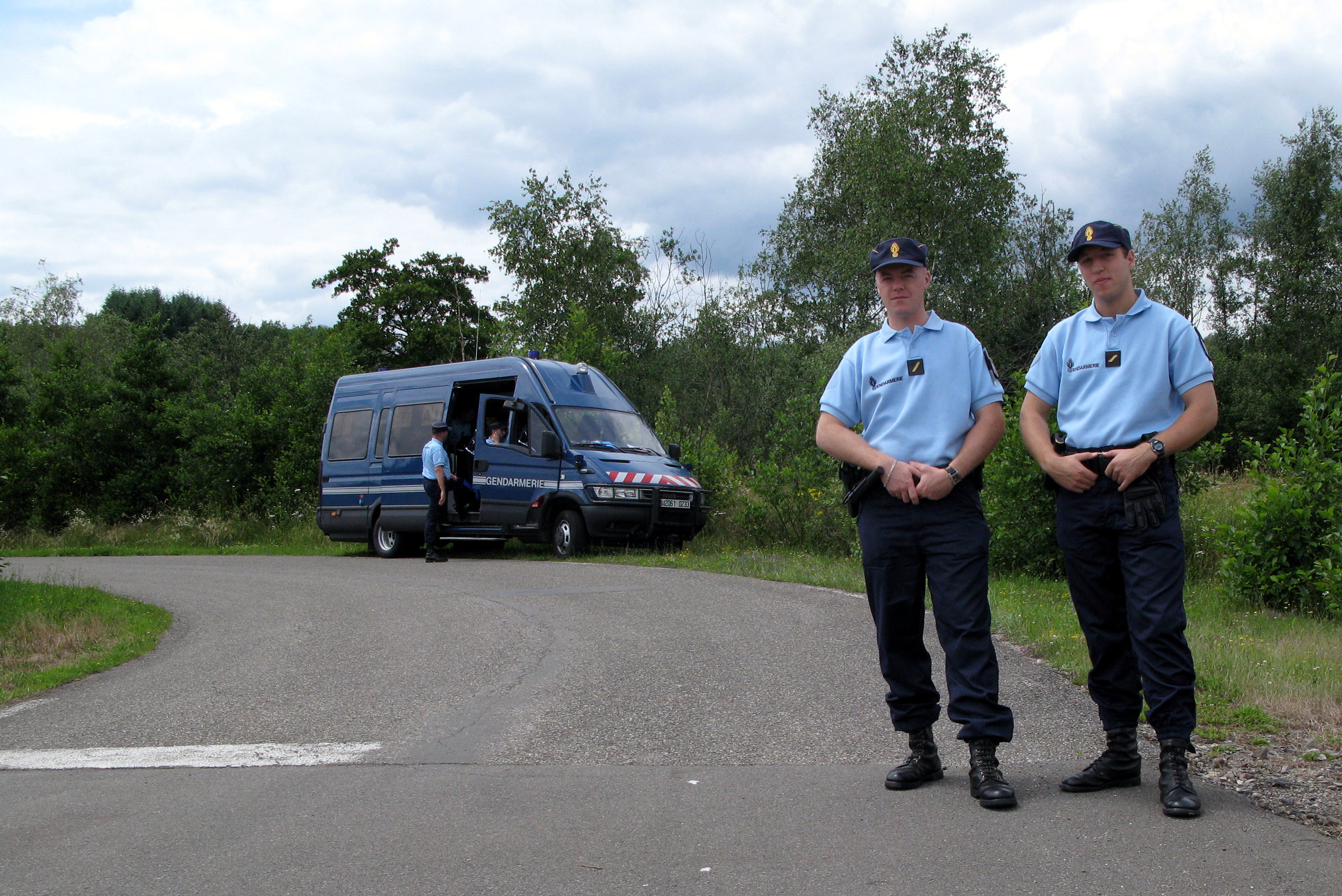 French Gendarmerie at the Eurockéennes of 2007.